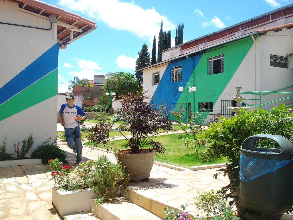 A private school courtyard in Brazil. (O pátio da minha escola)